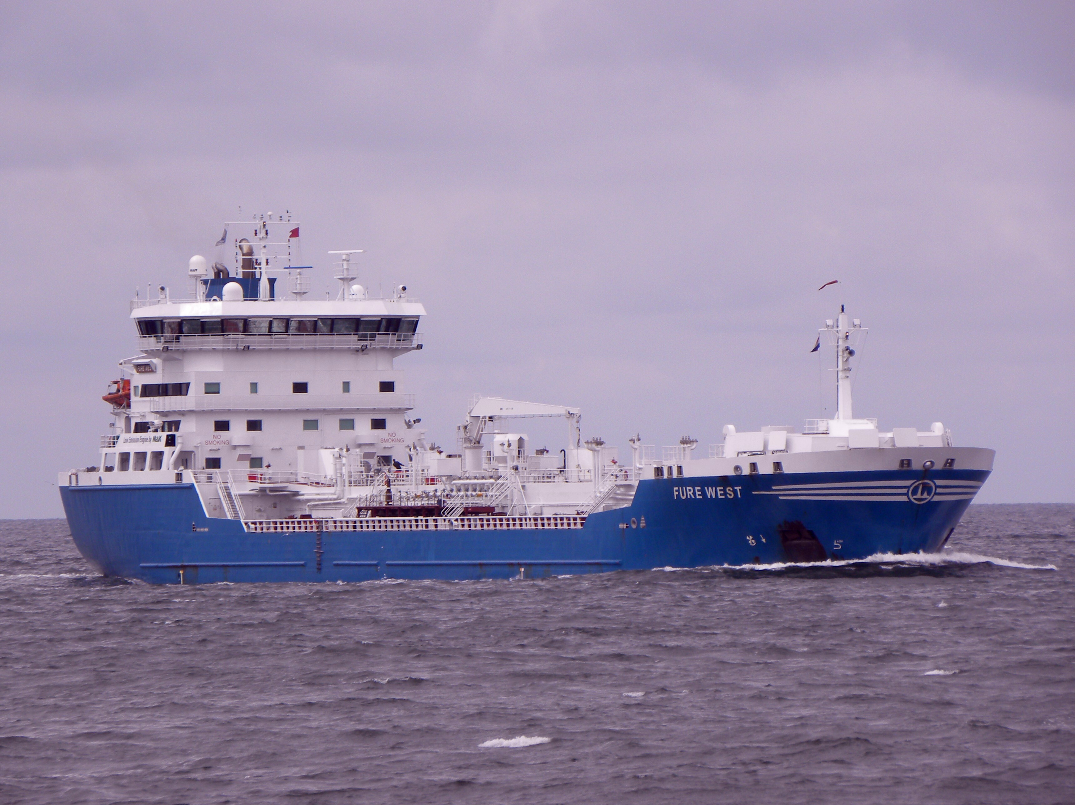 The following is the author's description of the photograph quoted directly from the photograph's Flickr page. Fure West - Sweden Tanker Built 2006 IMO Number: 9301873 MMSI Number: 266235000 Callsign: SJLF Length: 144 m Beam: 22 m